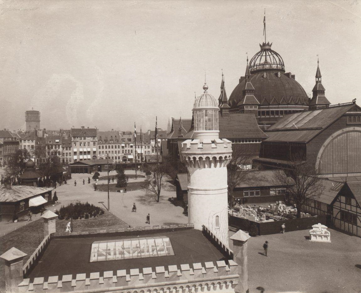 Gamle Carlsberg's copy of its main entrance at the 1888 Nordic Exhibition in Copenhagen, Denmark.